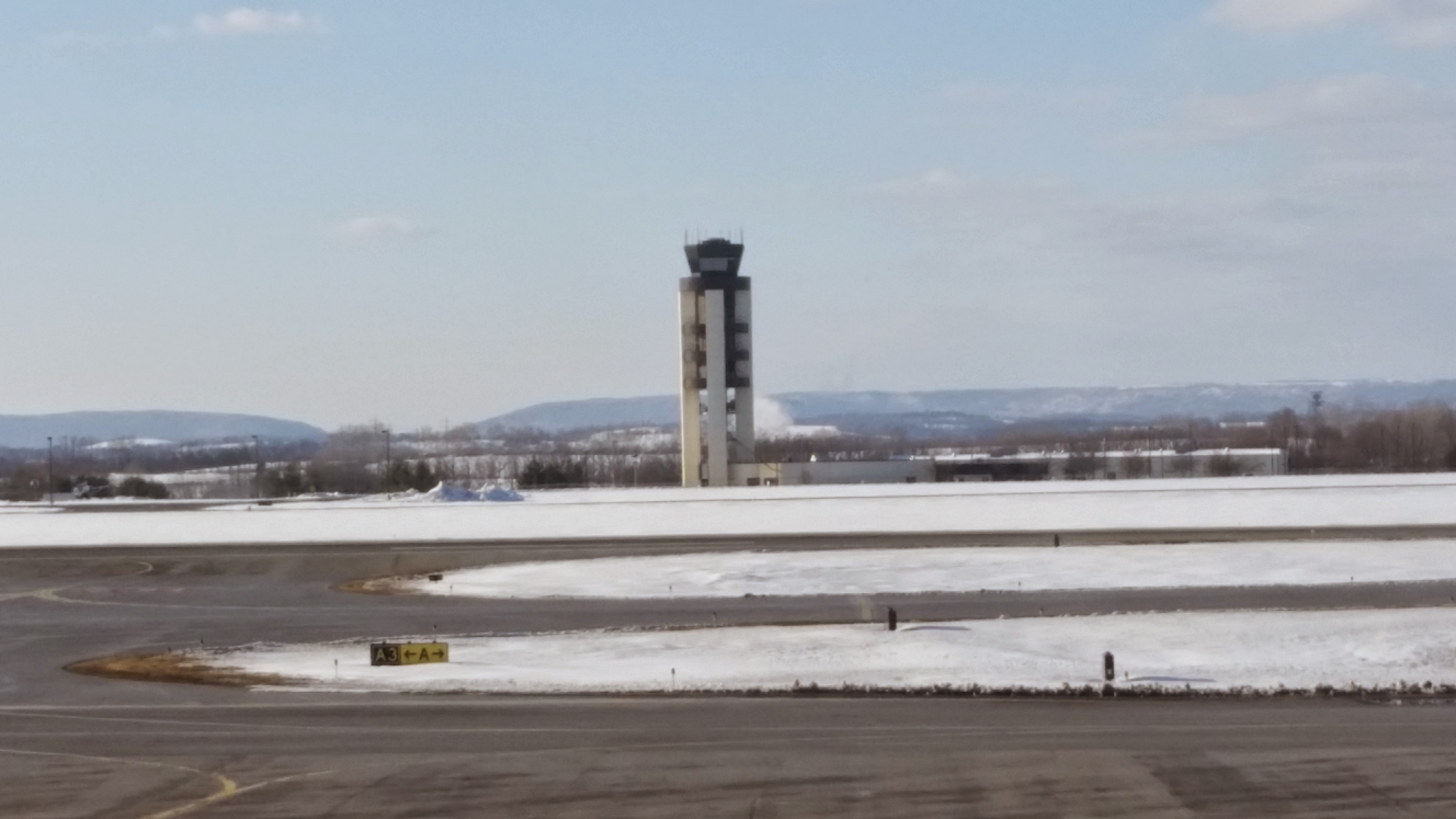 Air Traffic Control Tower at KABE